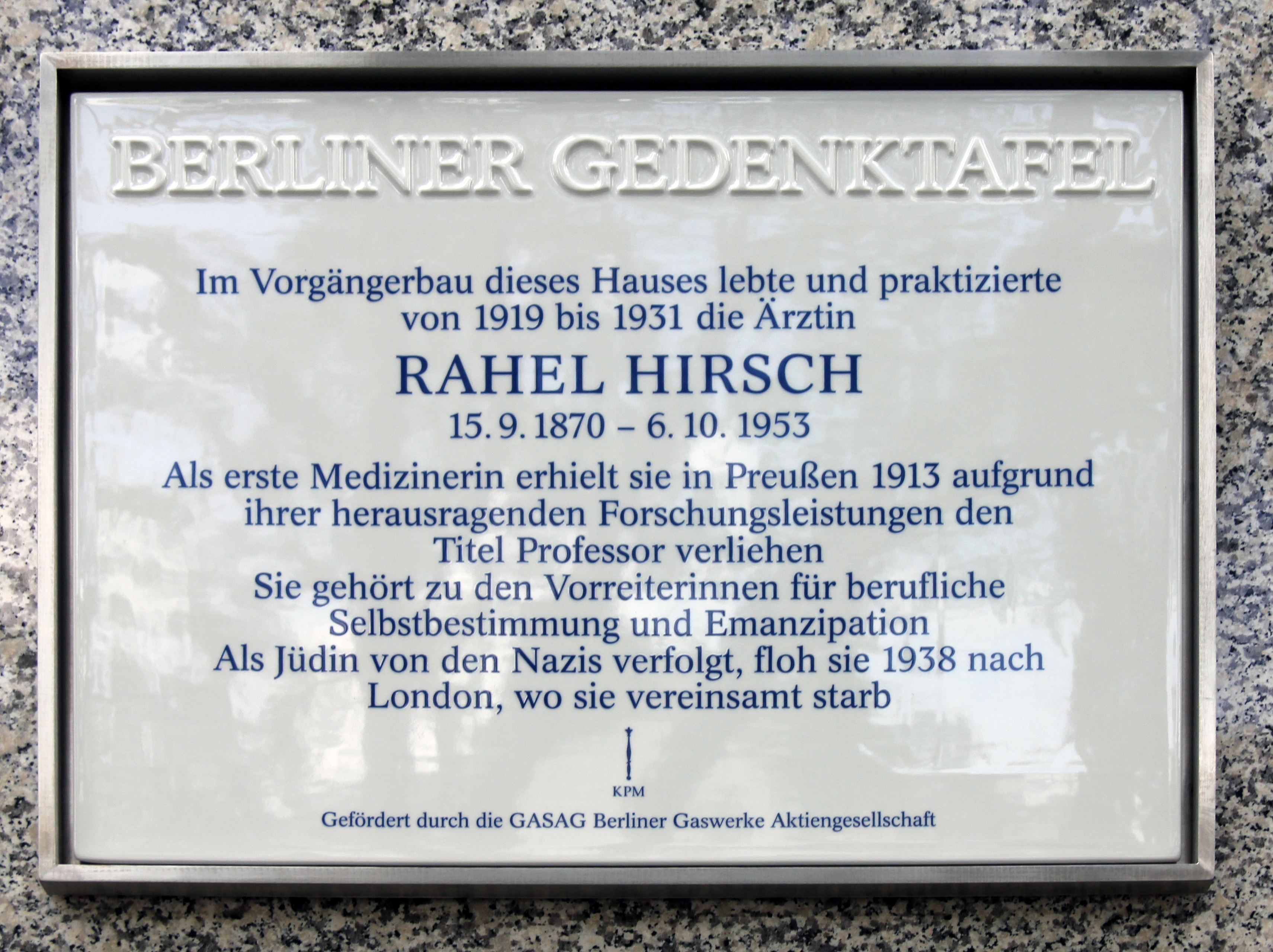 Berlin memorial plaque, Rahel Hirsch, Kurfürstendamm 220, Berlin-Charlottenburg, Germany